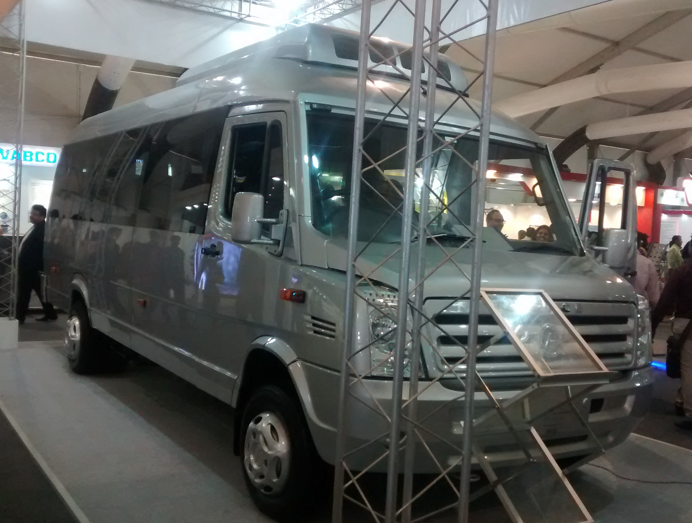 Force Motors Minivan